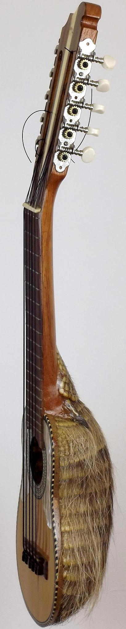 10 string 5 course Andean folk Chordophone this one was made in Bolivia and in the traditional manner of Using the carapace of a 9 Banded Armadillo for the body of the instrument